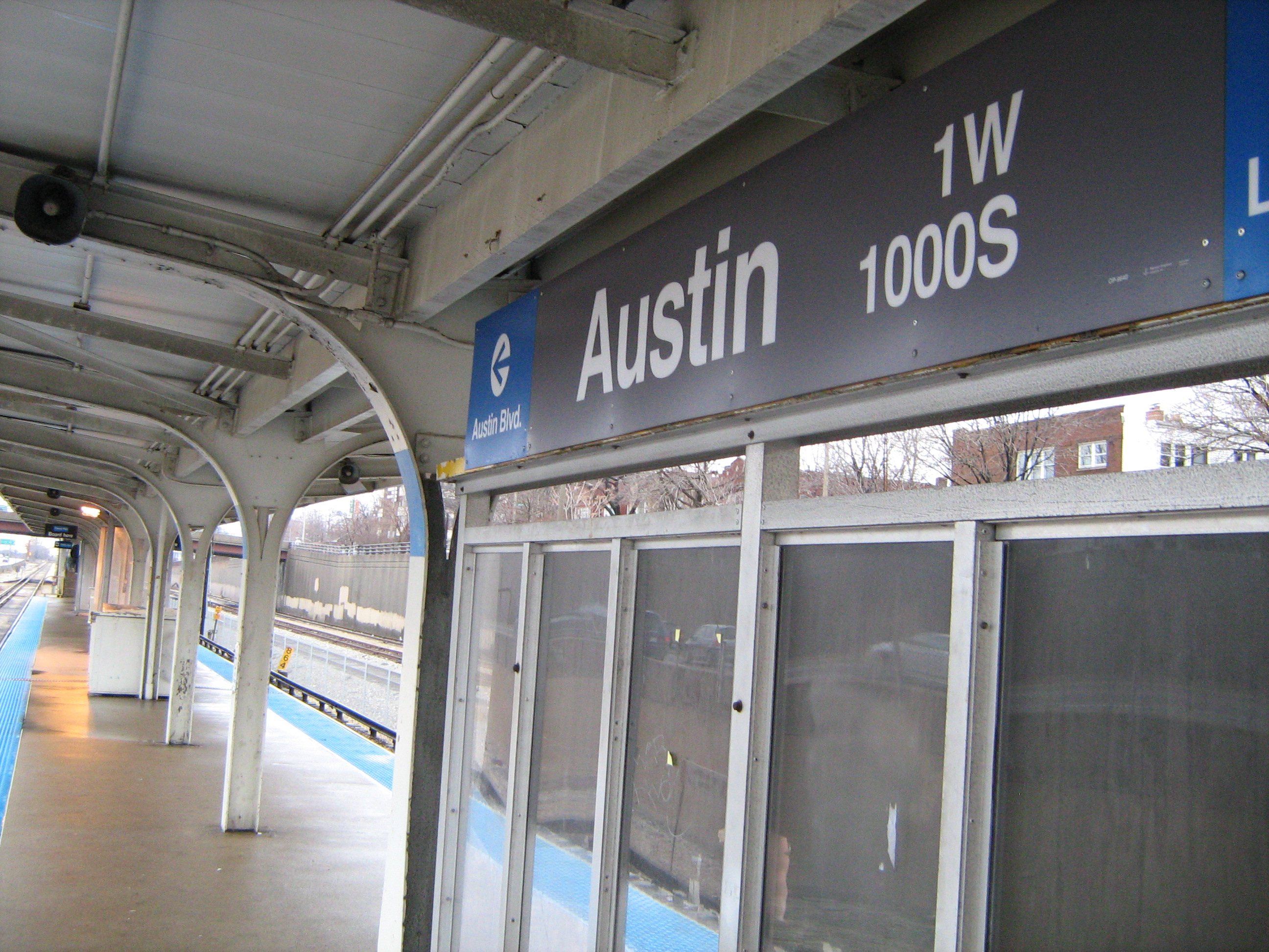 Austin CTA Blue Line Station